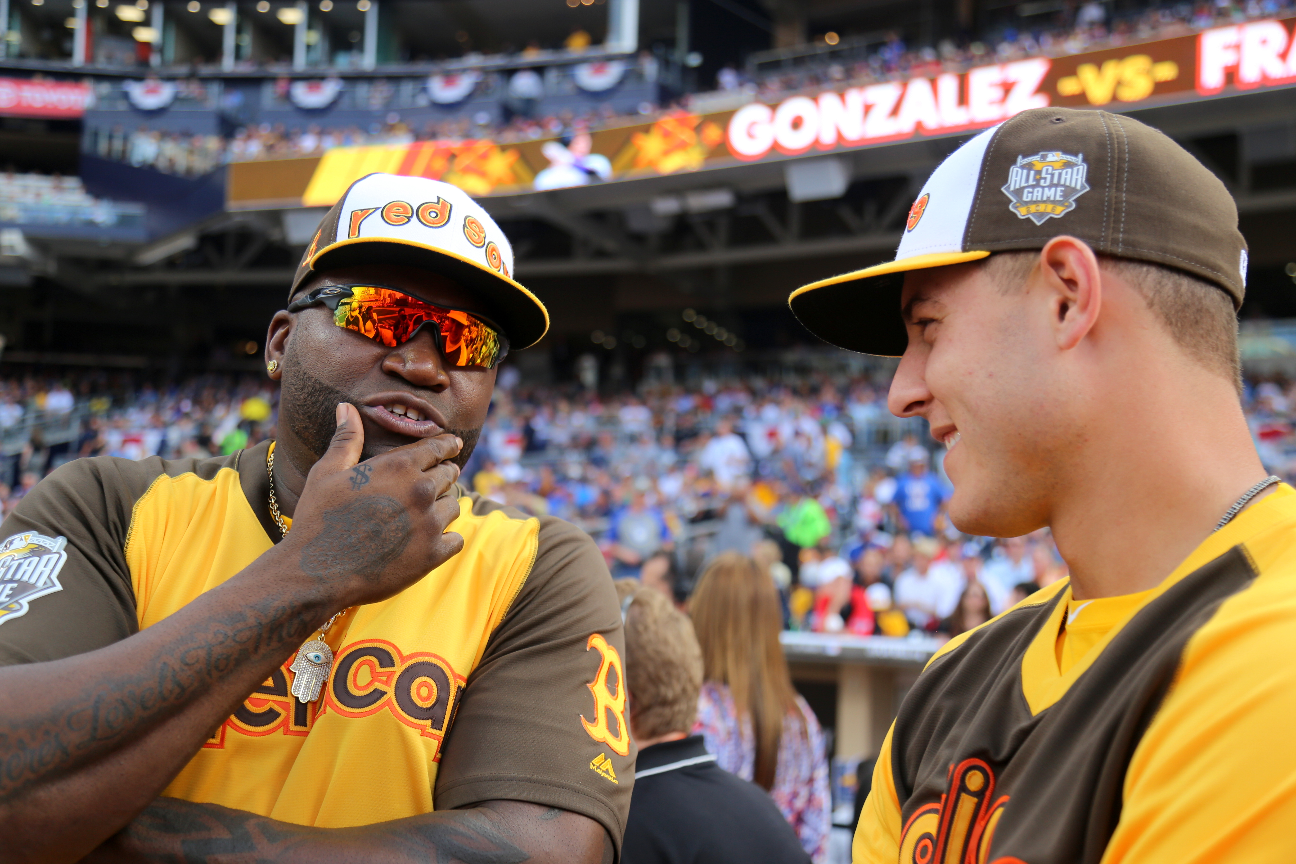 David Ortiz chats with Anthony Rizzo during the T-Mobile #HRDerby.